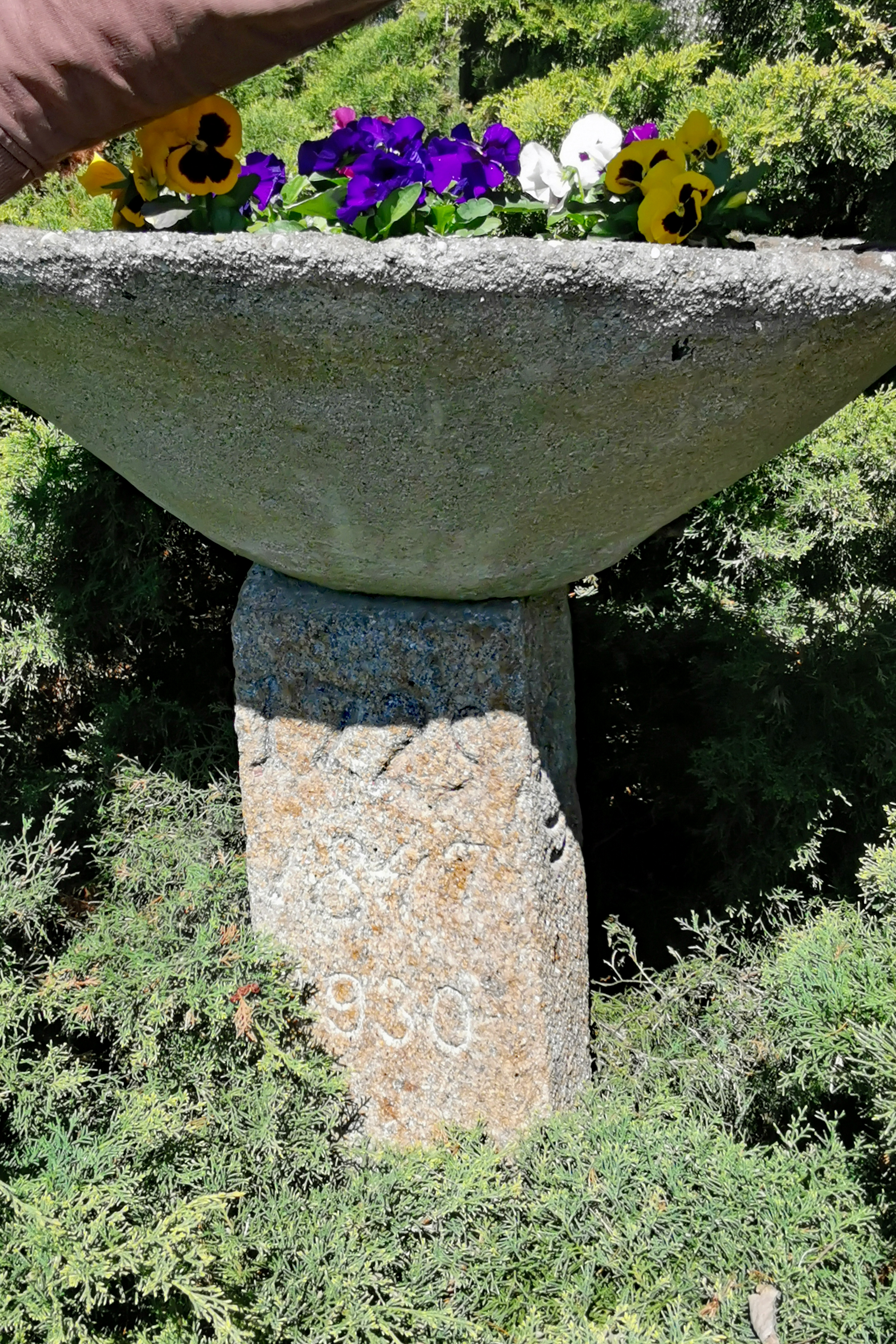 Paths stone near Niederguriger Straße 26, Doberschütz, Malschwitz; Saxony, Germany